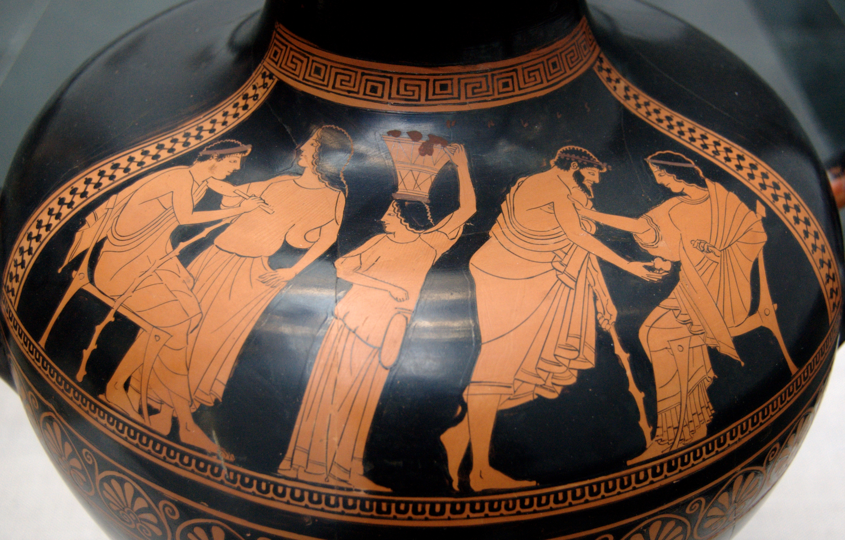 Visit to the hetaeras. Attic red-figure hydria.